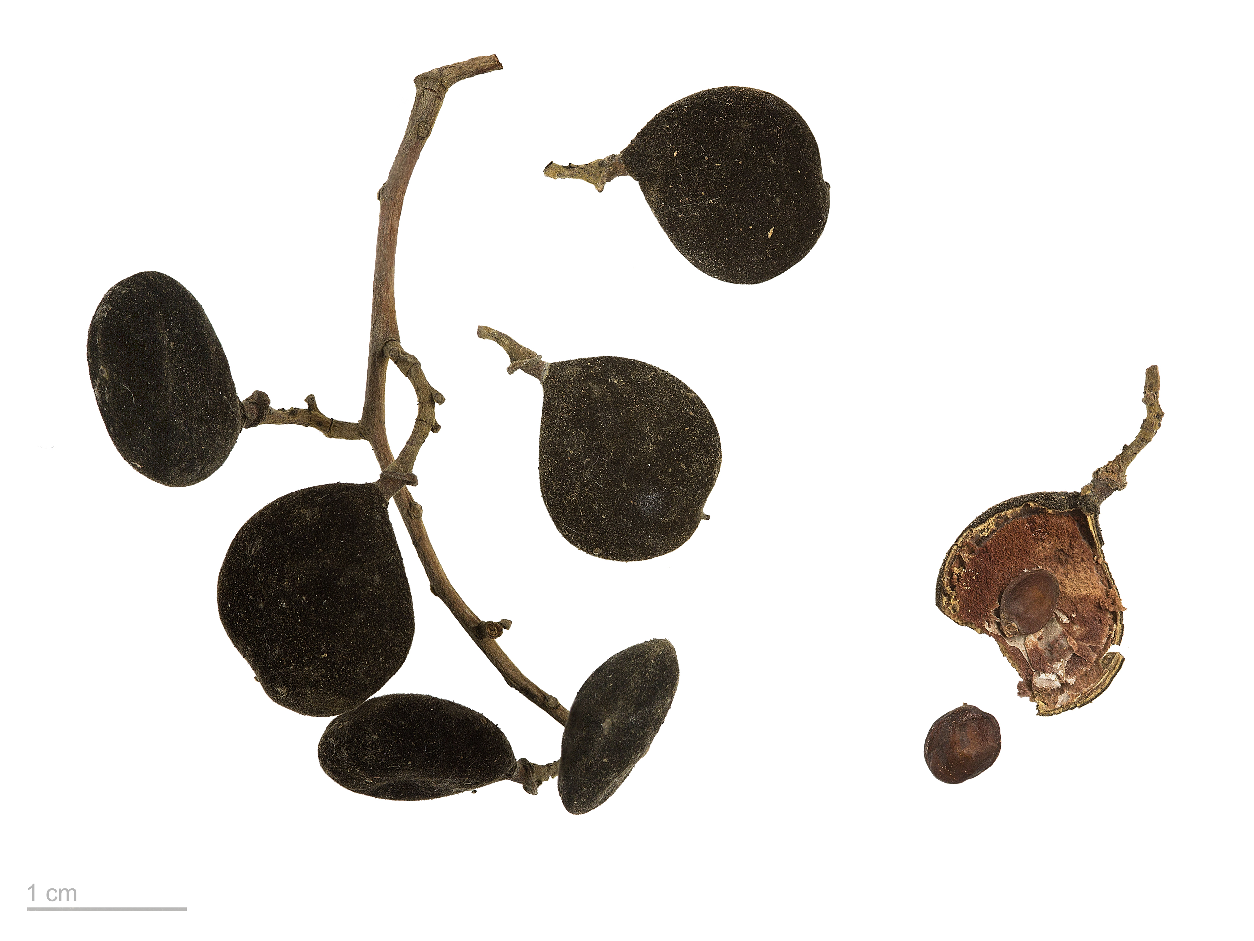 Dialium , fruits and seeds